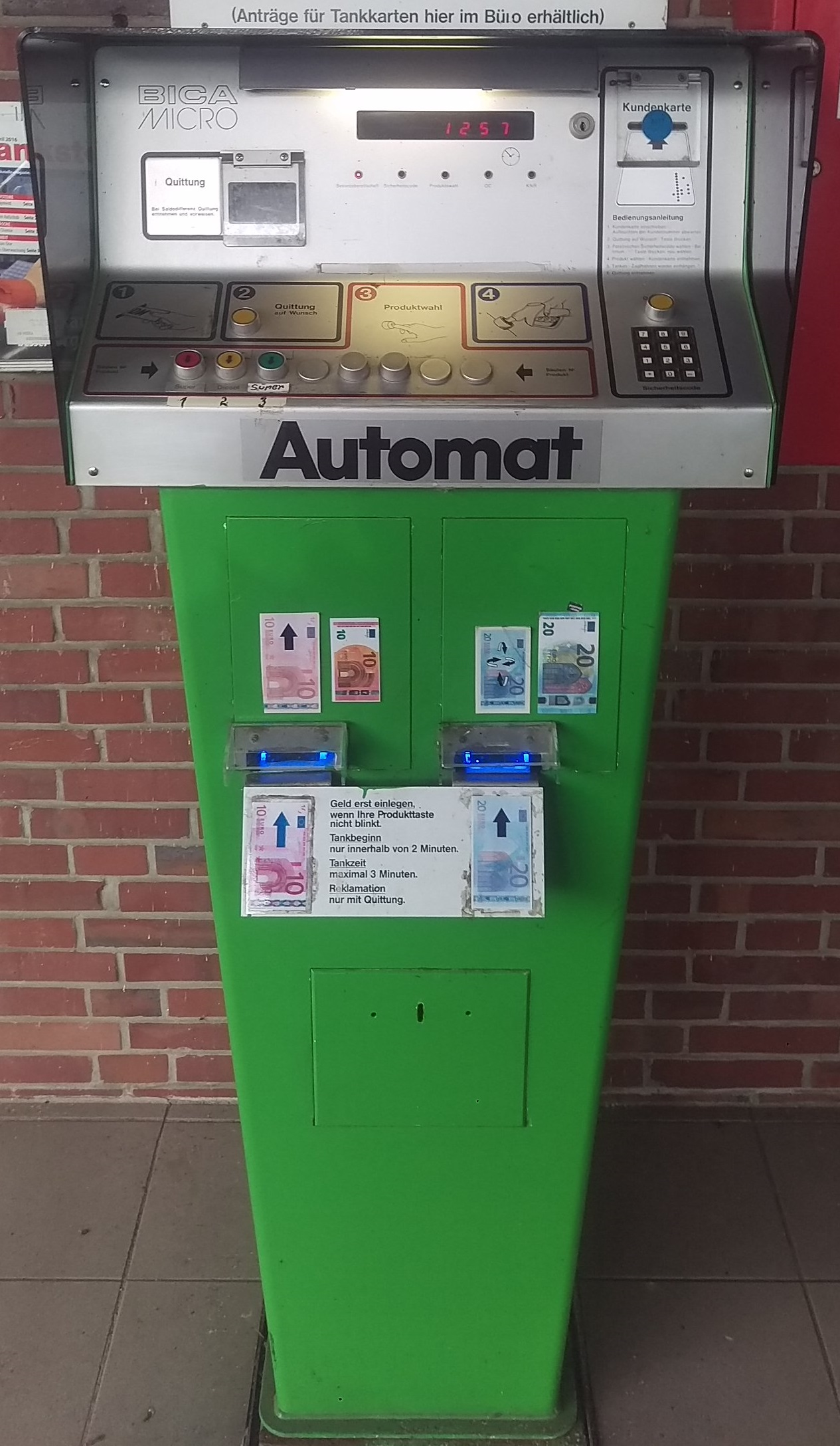 An old version of an automated fuel terminal (accepting cash and punched customer cards) at a petrol station in Lower Saxony, Germany.